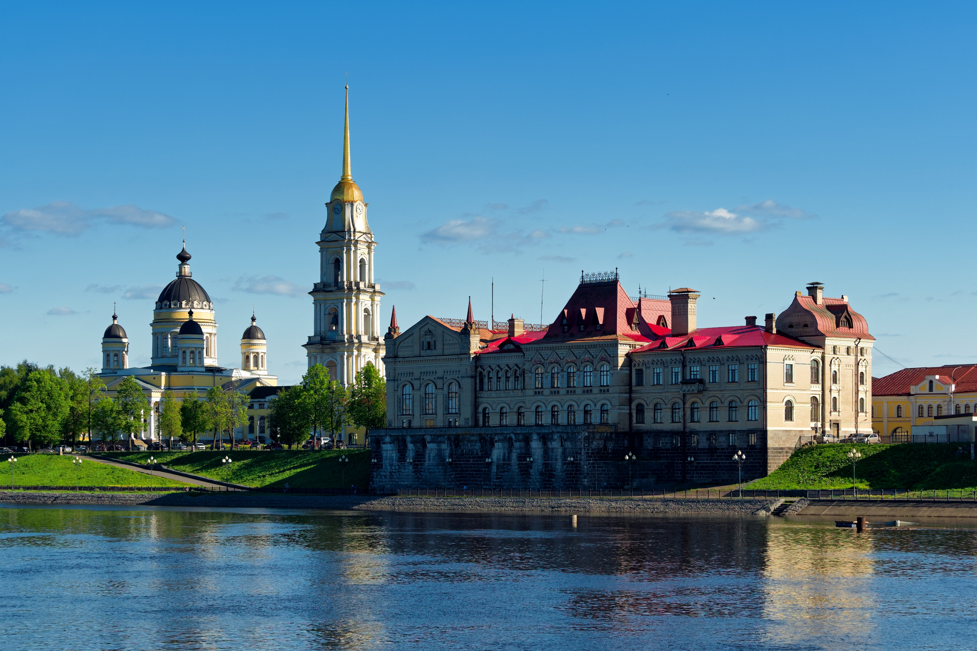 Volga River. Rybinsk. Rybinsk Museum-Preserve and Transfiguration Cathedral